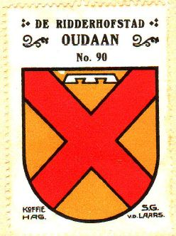 Coat of arms of Oudaan (Netherlands)